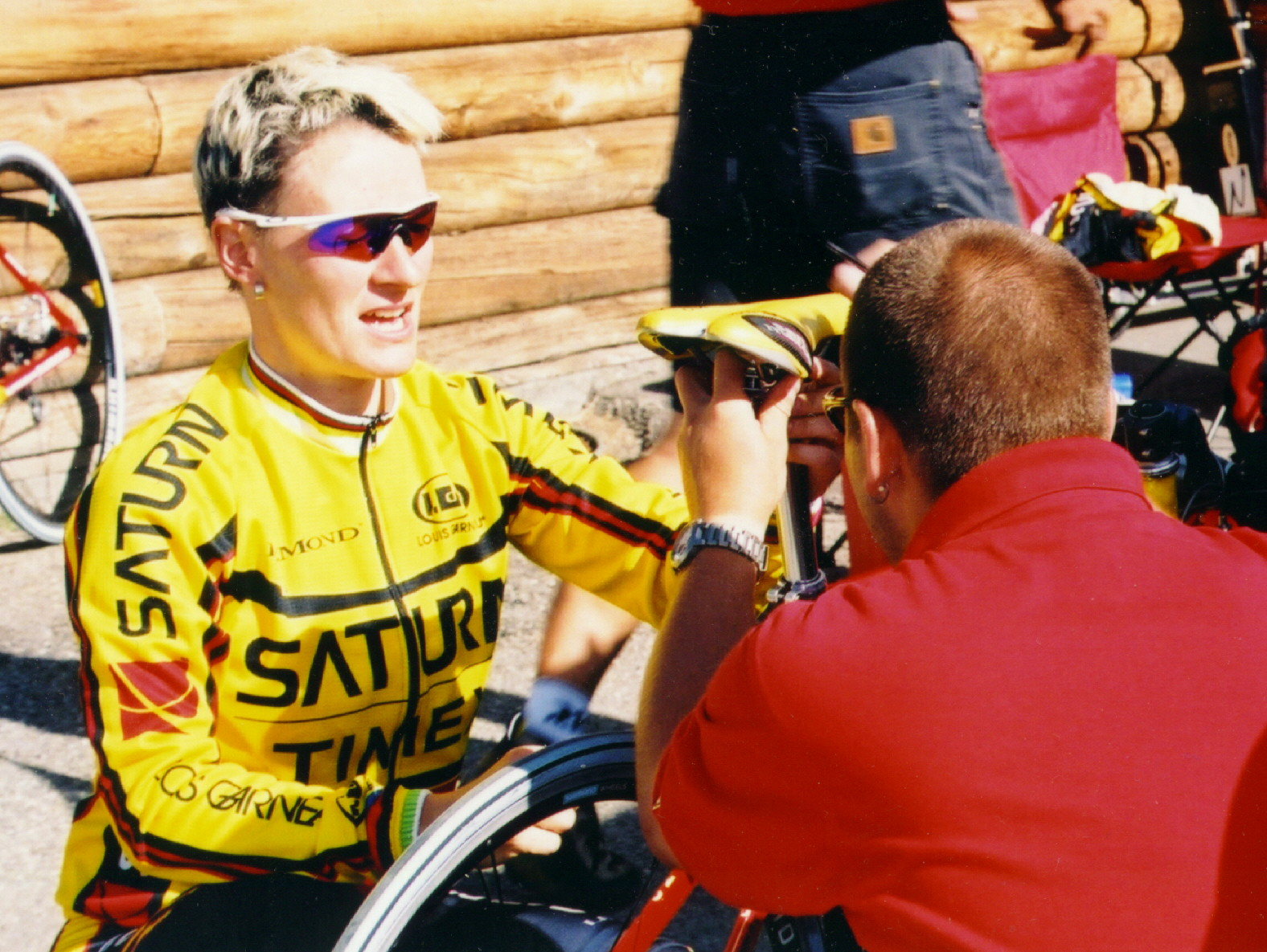 Petra Rossner discusses some final adjustments to her time trial bike prior to her start in the Stanley Time Trial (stage 4 of the 2002 Women's Challenge).